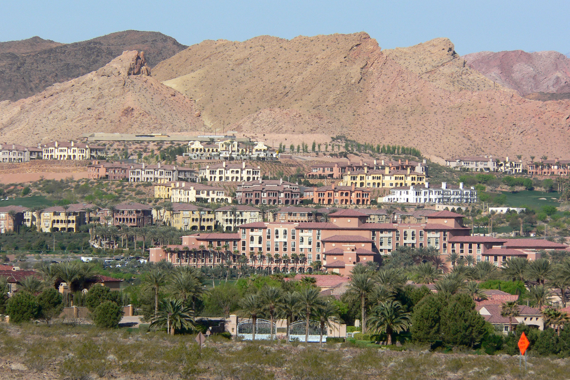 Lake Las Vegas from the south, between Las Vegas and Lake Mead, southern Nevada